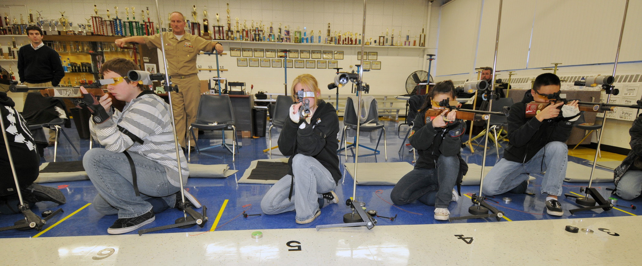 ZION, Ill. (Jan. 23, 2010) Navy Junior ROTC cadets from Zion-Benton High School practice shooting at the school's air rifle range. In 2009, the team won first place at the Junior Olympics, took first at the U. S. Army Nationals, came in third at the U.S. Navy Nationals and is presently ranked No. 1 heading into this year's Navy Nationals in March. (U.S. Navy photo by Scott A. Thornbloom/Released)